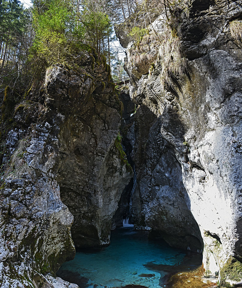 Veliki Predoselj gorge and its bridge.